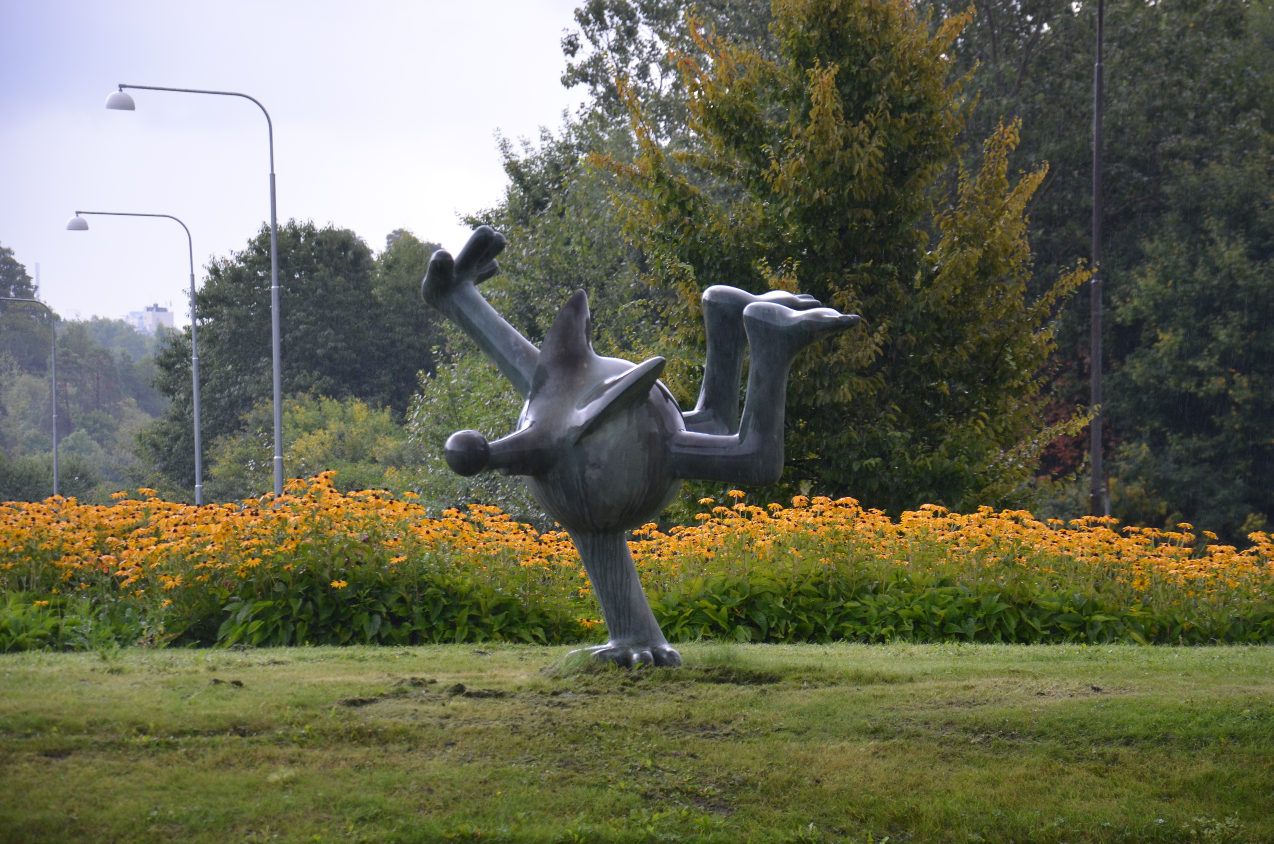 Johan Wikings Pivo, Ekelundsrondellen i Huvudsta i Solna